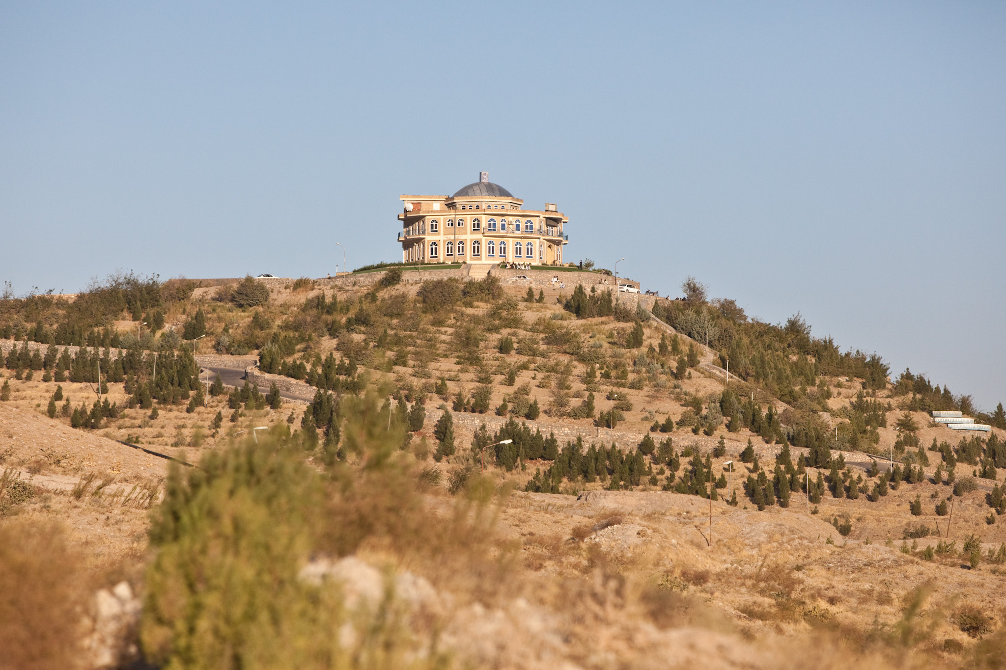 A palace on top of a hill in Herat, Afghanistan. Supposedly where wedding and other ceremonies are held.